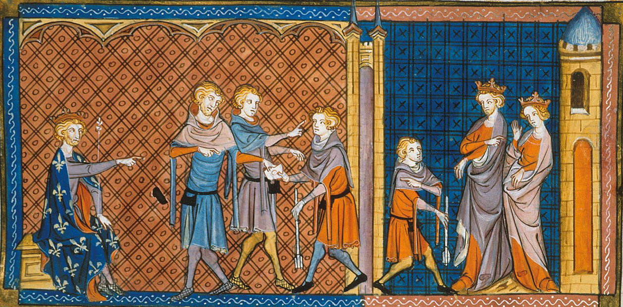 Philip II August sending an envoy (left), and the envoy being received by Henry II of England and his queen Eleanor (right). (British Library, Royal 16 G VI f. 343v)